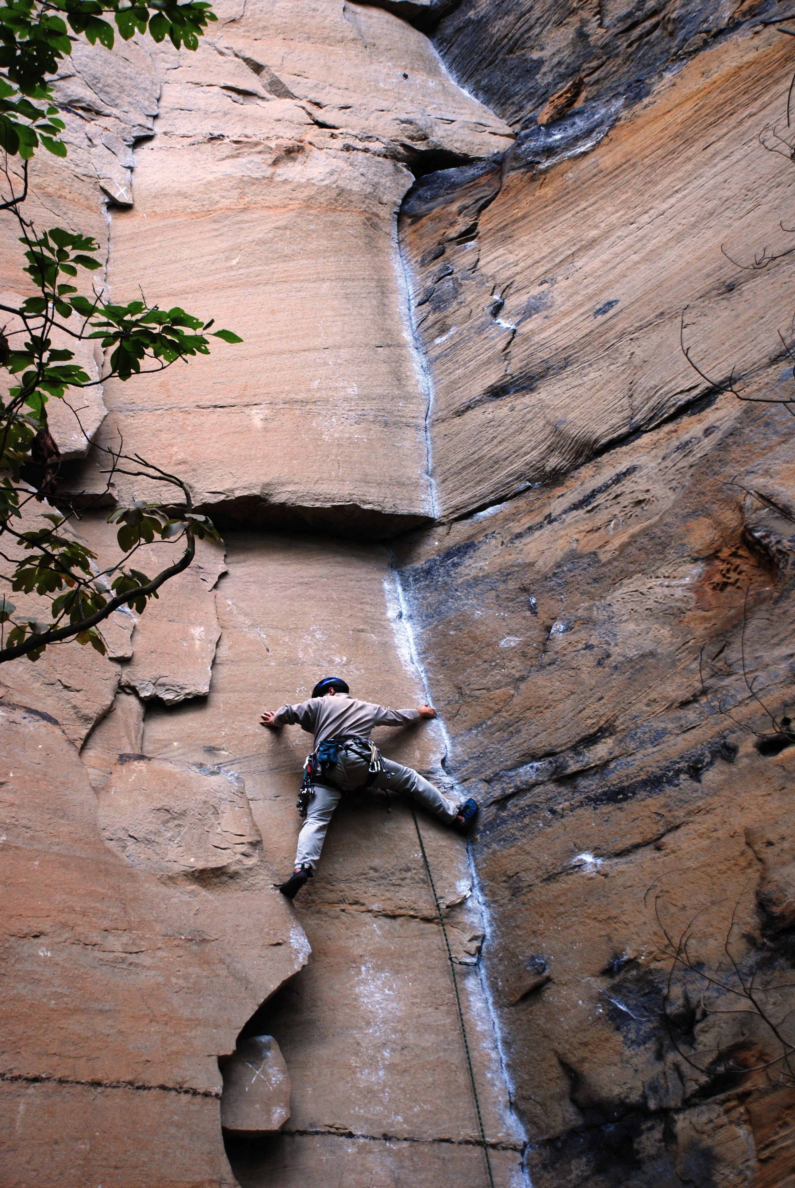 Climber on Rock Wars (5.10a) at Long Wall in Red River Gorge of Kentucky